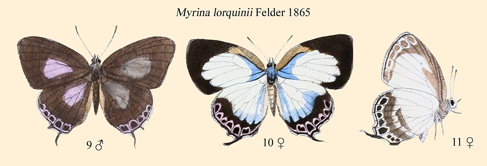 Hypochlorosis lorquinii, Aru, Halmahera, male, female, from original description.